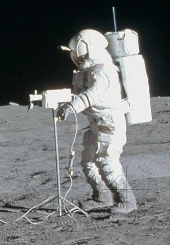 Astronaut Edgar Mitchell works with the television camera on Apollo 14.